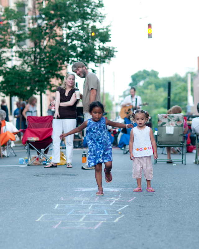 Girls playing hopscotch in Shelbyville, Kansas.